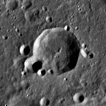 LROC image of Gullstrand crater